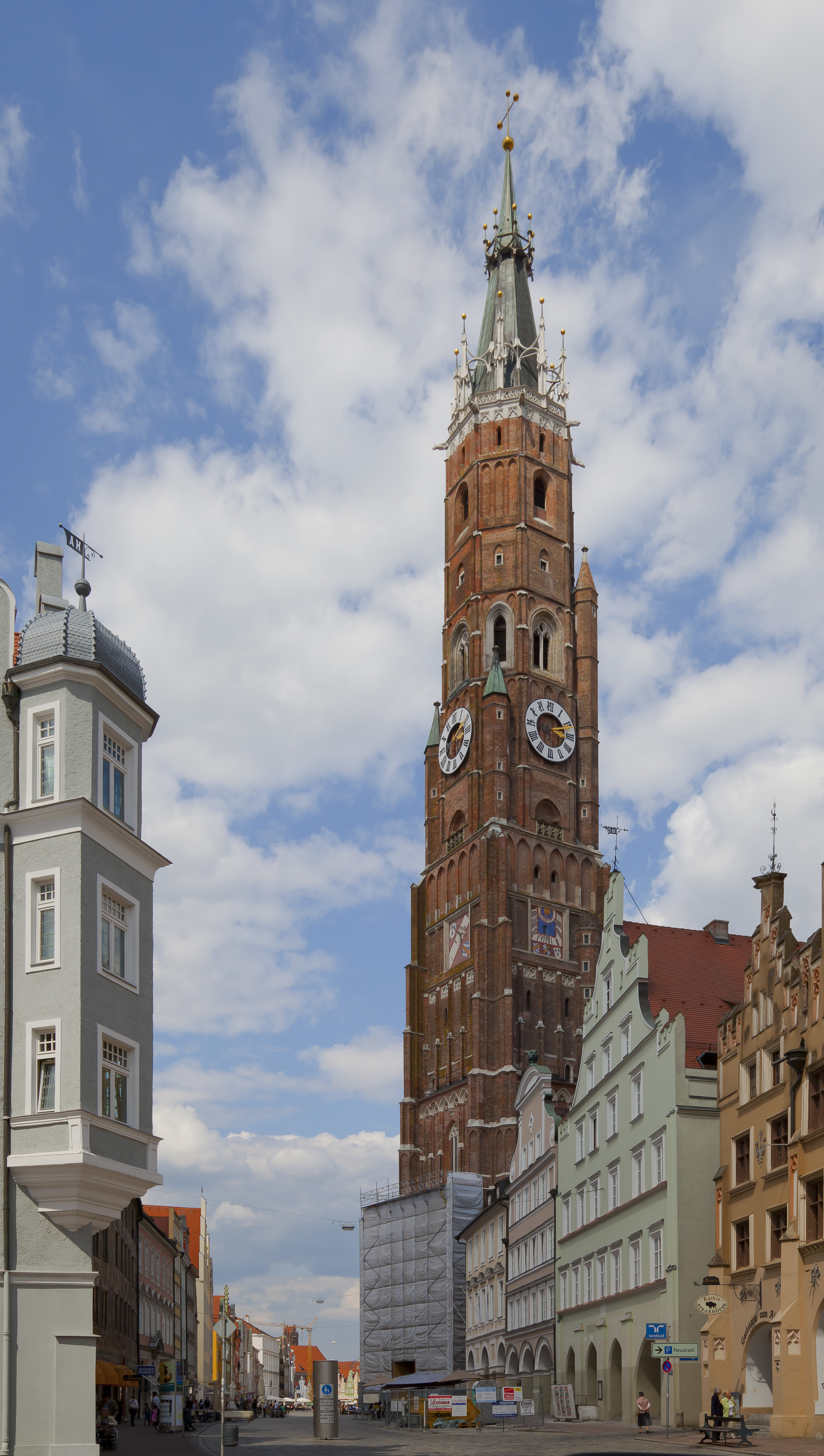 St. Martin church, Landshut, Germany